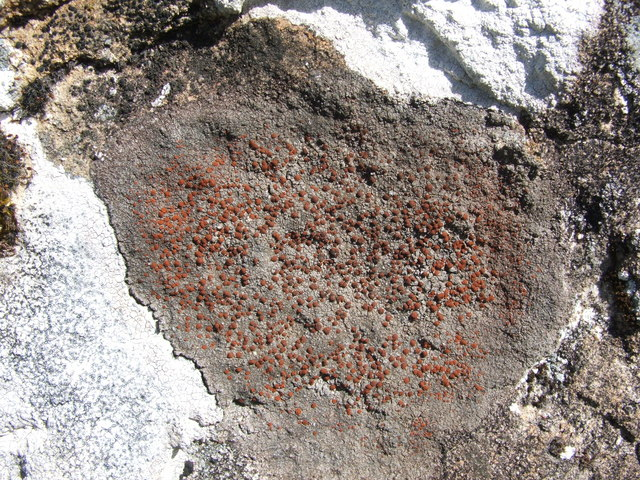 A lichen - Caloplaca crenularia This species forms a grey crust with rust-red discs that are about 1 mm across. It was growing on a rock beside an entrance to a small disused quarry.